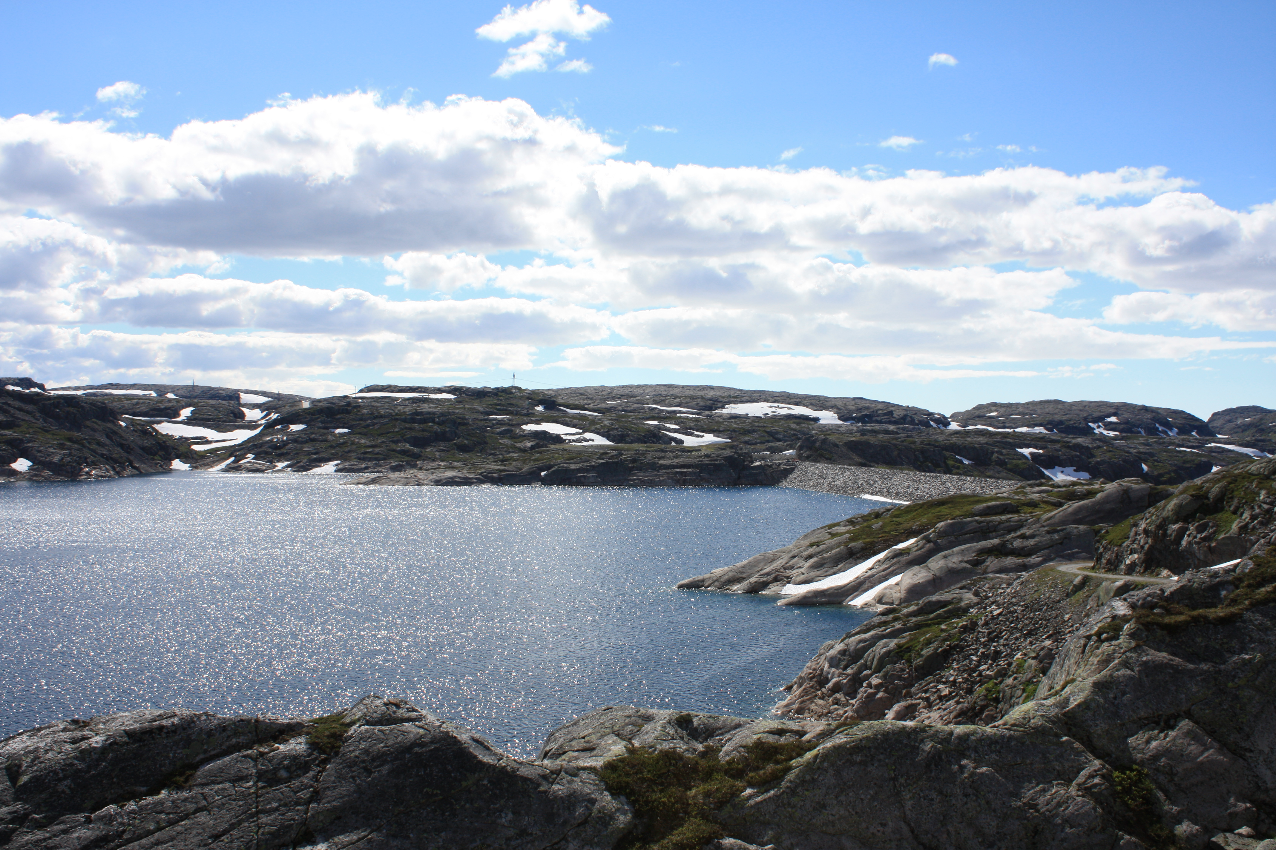 Oddatjørndammen with Blåsjø in the foreground. Part of Ulla-Førre